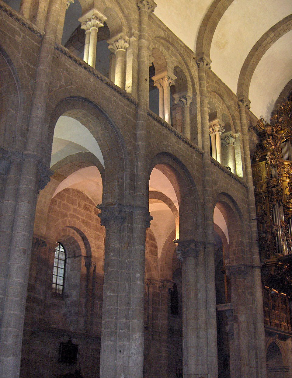 Side aisle and gallery of the cathedral of Santiago de Compostela, Spain